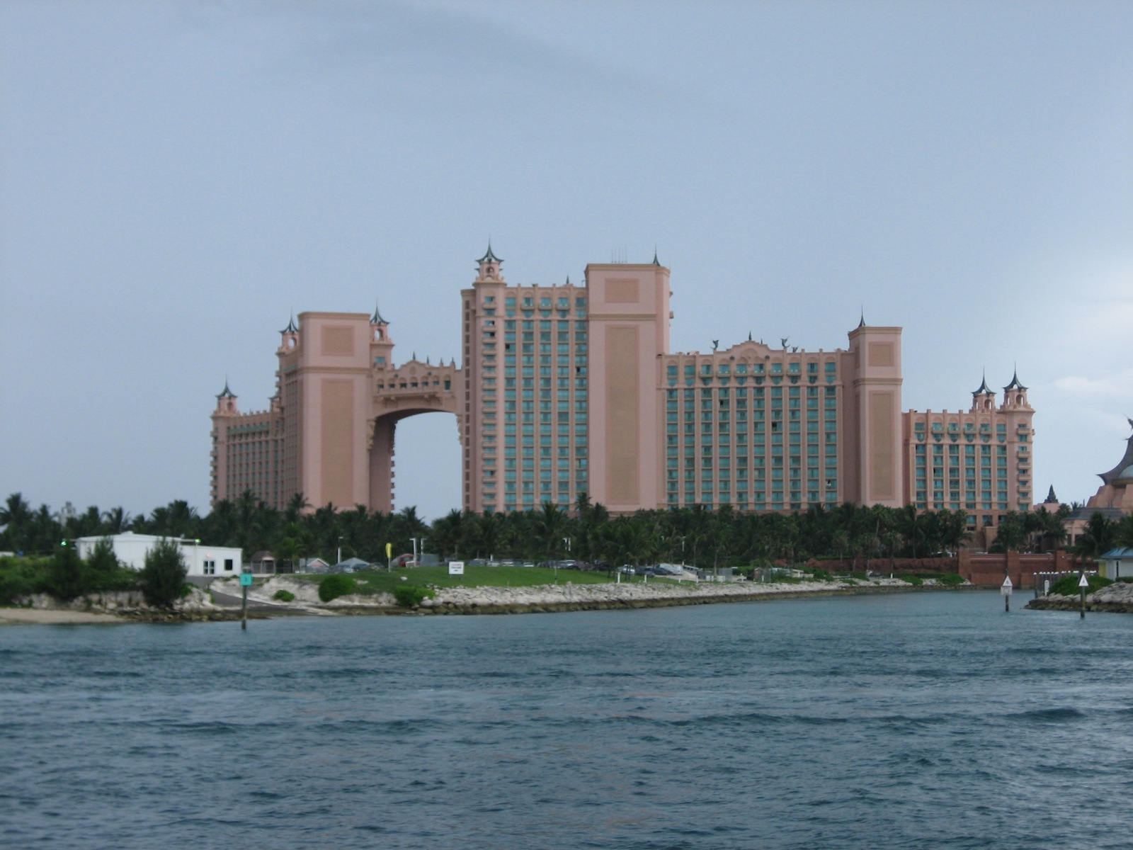 Atlantis on Paradise Island